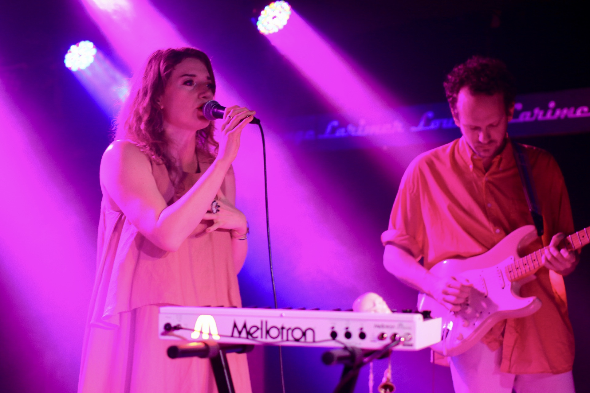 Pure Bathing Culture ::: Larimer Lounge ::: 08.13.19